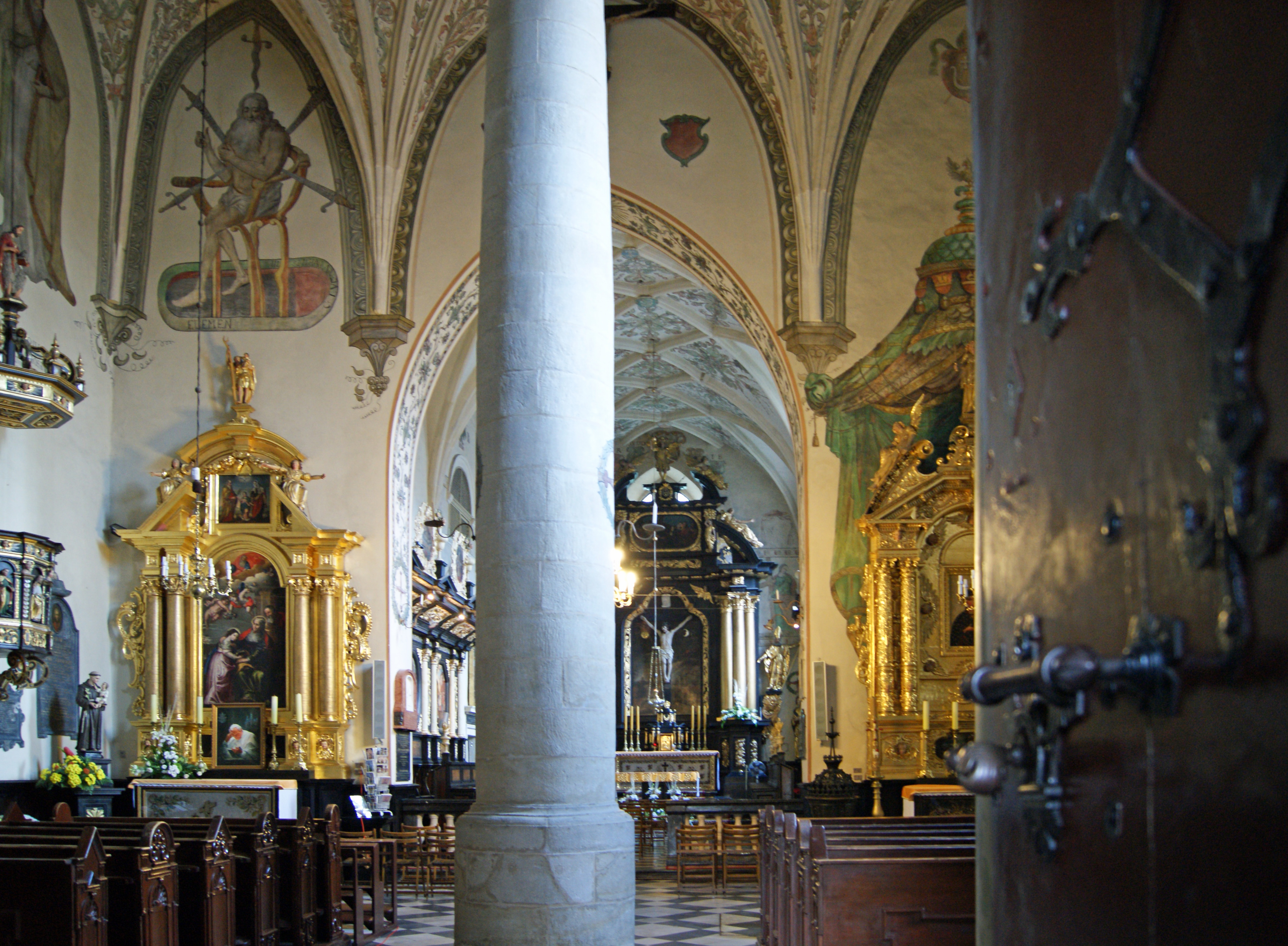 Church of the Holy Cross (interior), 2 sw. Ducha sq, Old Town, Krakow, Poland